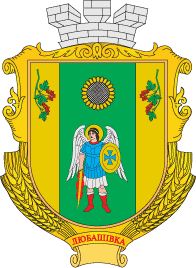 Coat of arms of Liubashivka, Odessa Oblast, Ukraine